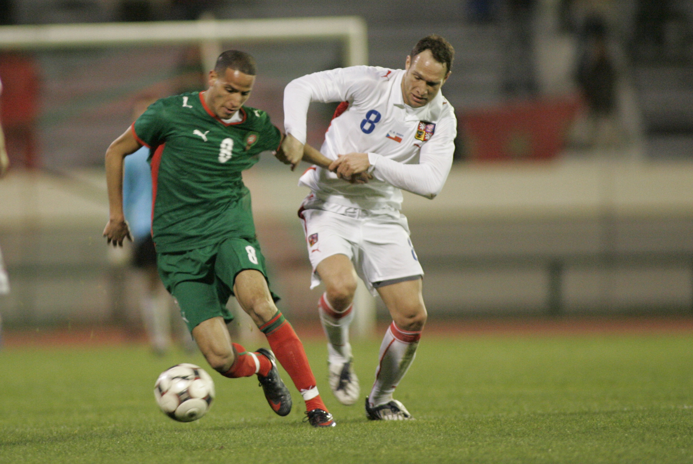 Friendly match between Morocco and Czech in Casablanca: 0-0. Date: February 11, 2009.